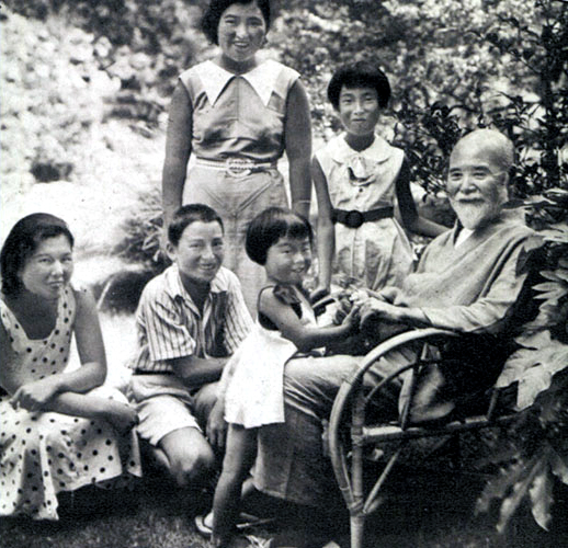 Japan’s Finance Minister Korekiyo Takahashi (高橋是清, 1854–1936) relaxes with his grandchildnen at his vacation home in Hayama.).